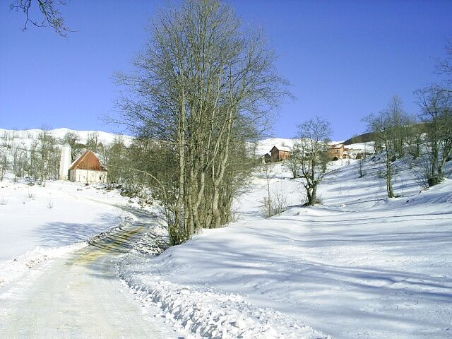 Bjelašnjica mountains near Sarajevo, in Bosnia and Herzegovina